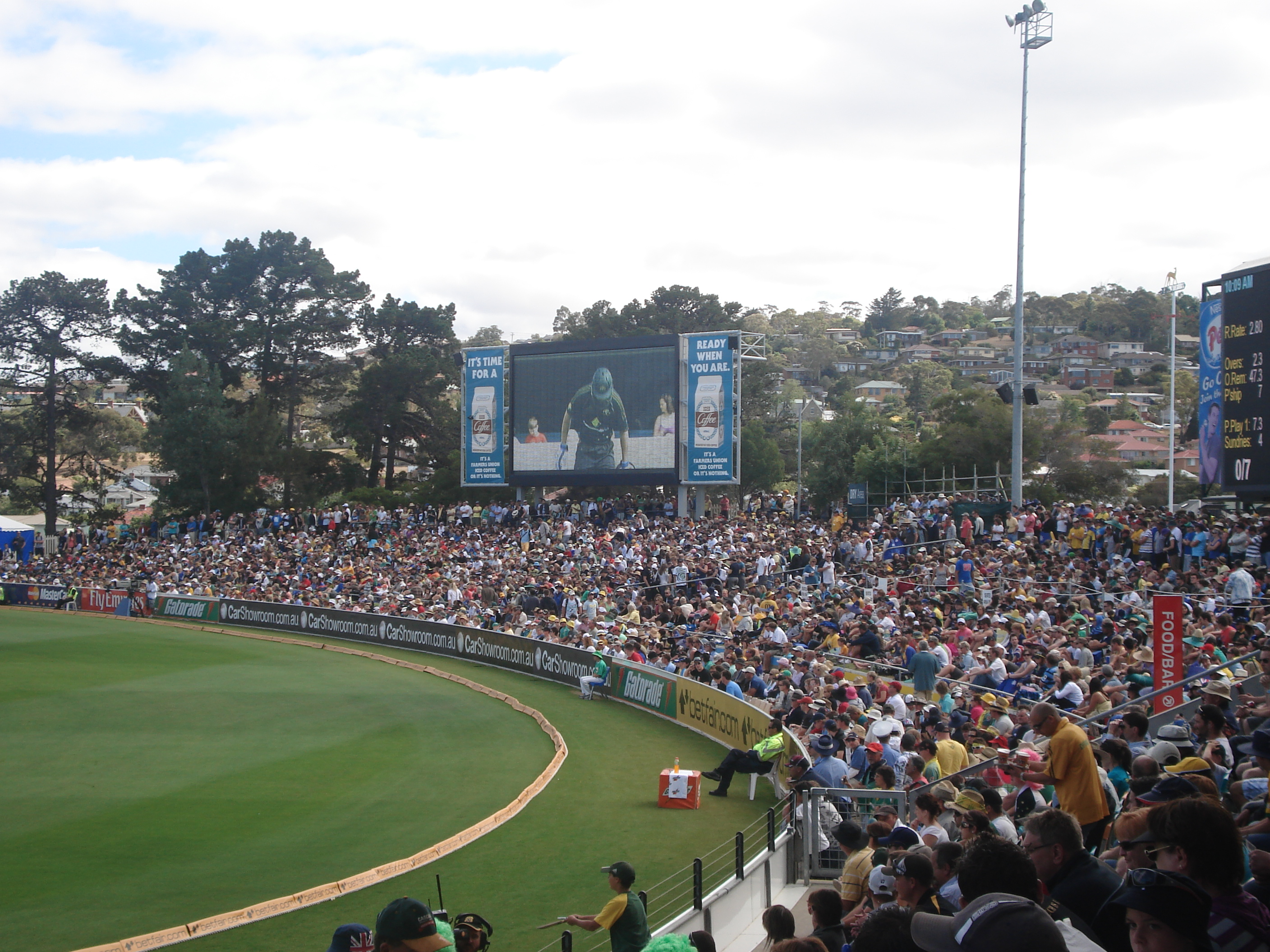 View of Hill at Bellerive Oval